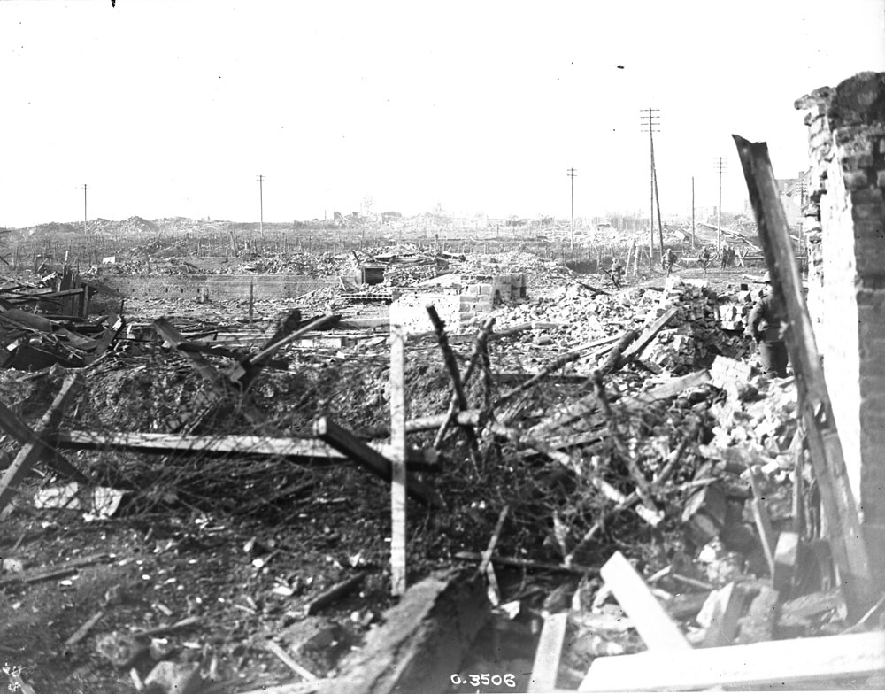 Canadians dashing into Valenciennes, France, under heavy gun fire.